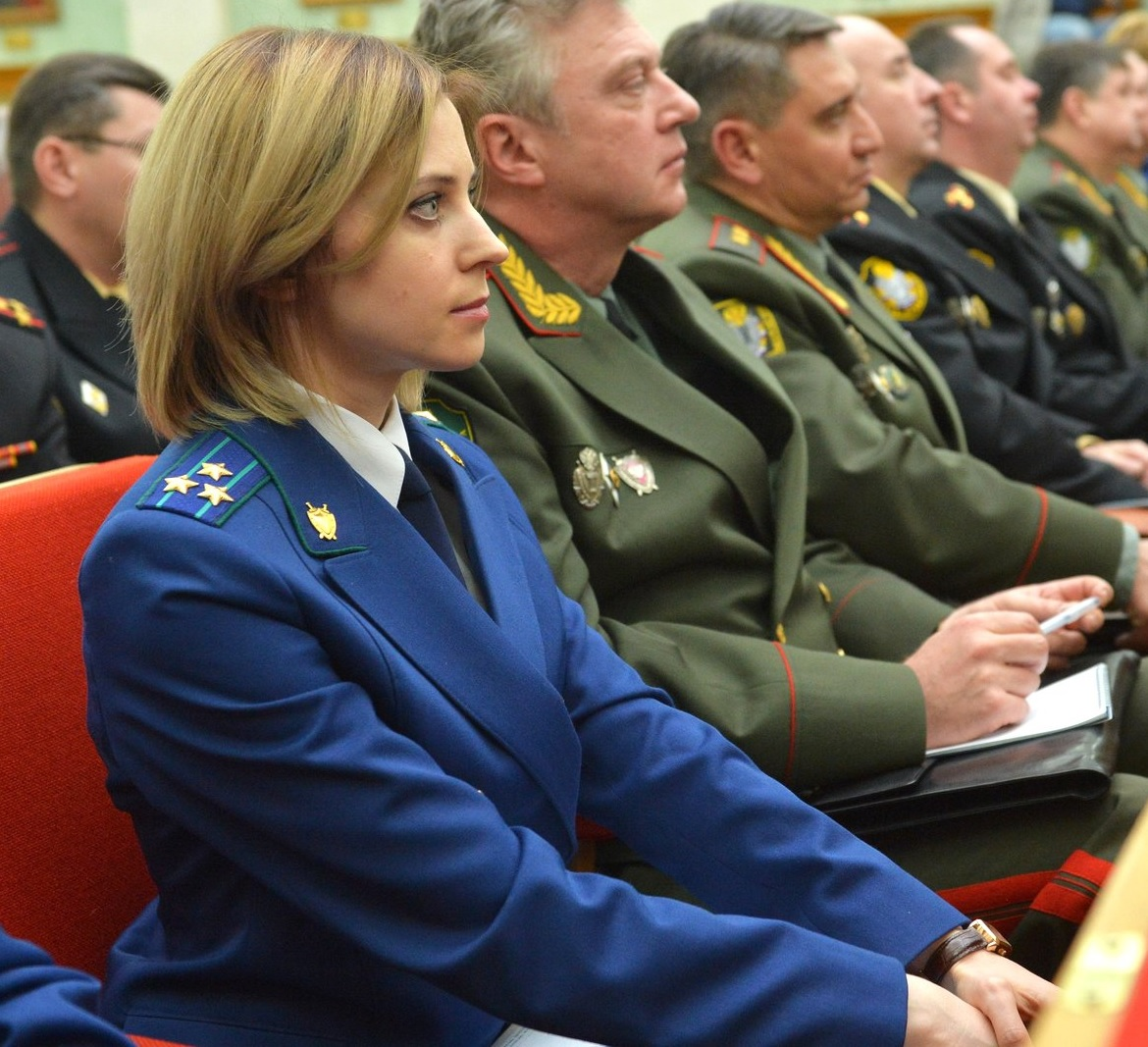 Natalia Poklonskaya, Prosecutor General of the Republic of Crimea from 2014 onwards, at the expanded board meeting of the office of the Prosecutor General of Russia on 24 March 2015.